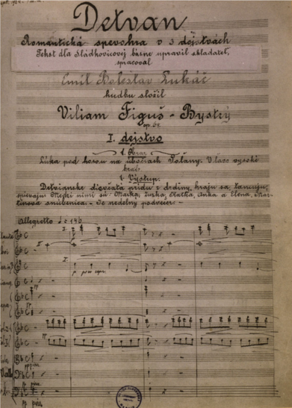 Viliam Figuš-Bystrý: Detvan (opera), partition, first page of the manuscript